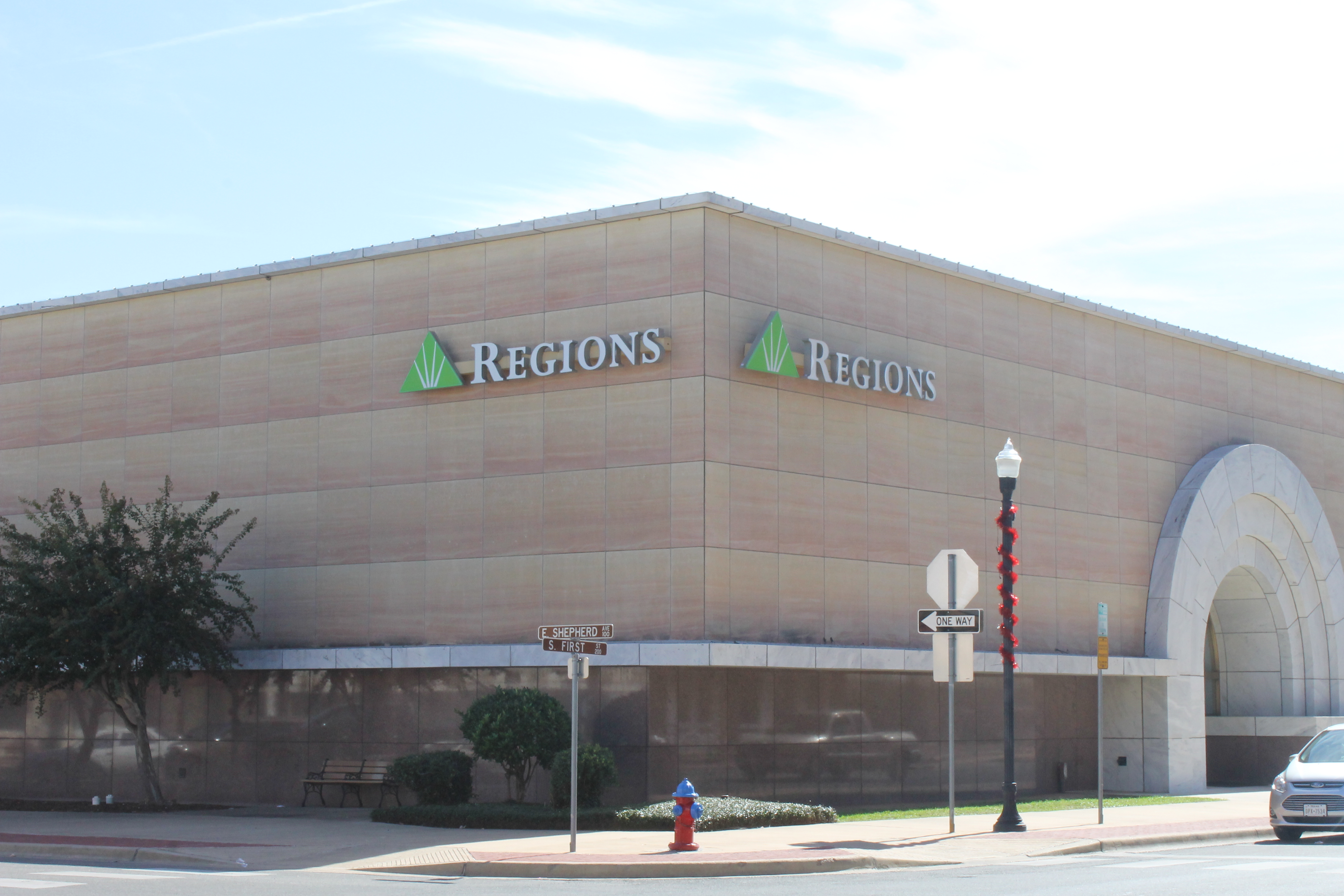 Regions Bank in downtown Lufkin, TX